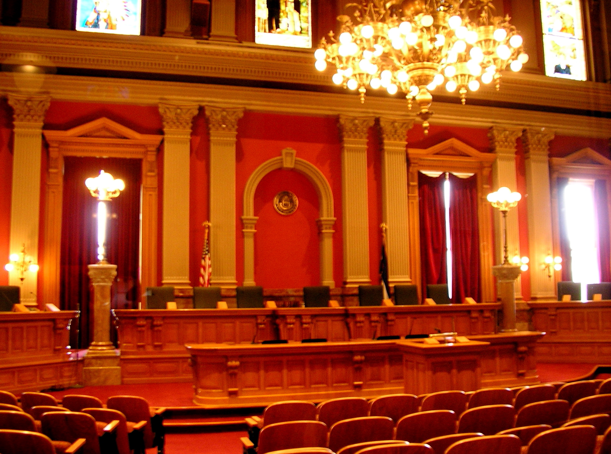 The old Supreme Court Chambers in the Colorado State Capitol. Now a a legislative hearing room. Taken by myself and released into the public domain.